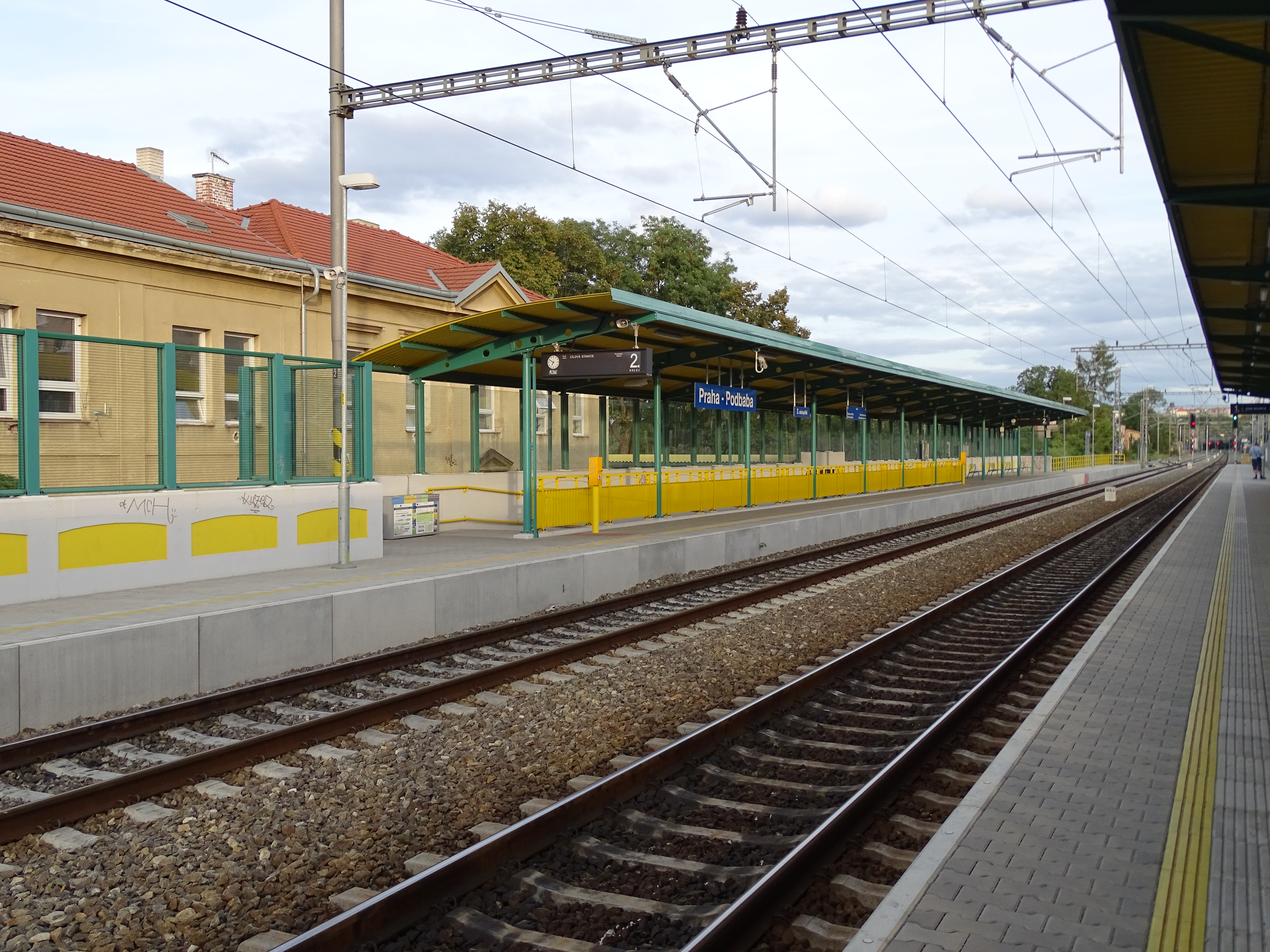 Prague-Bubeneč, Czech Republic. Train stop Praha-Podbaba.